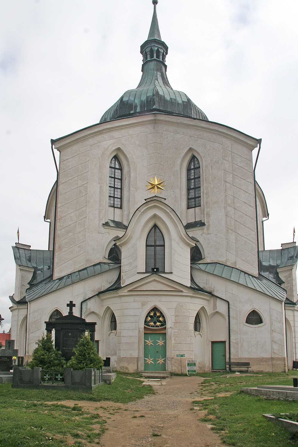 Pilgrimage Church of Saint John of Nepomuk, district Žďár nad Sázavou, Czech Republic